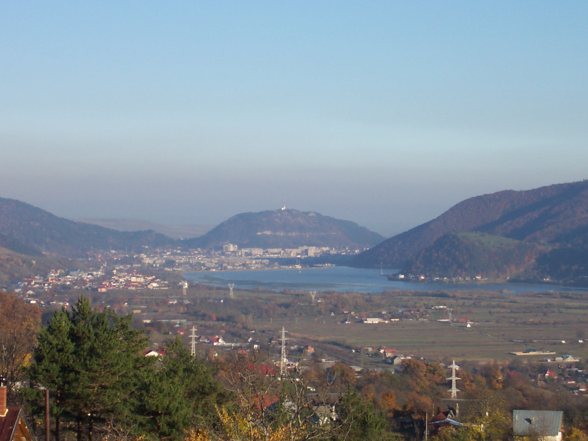 Bistriţa River (Moldavia), Romania, near Piatra Neamţ. Courtesy of Irina Burlacu, October 2007